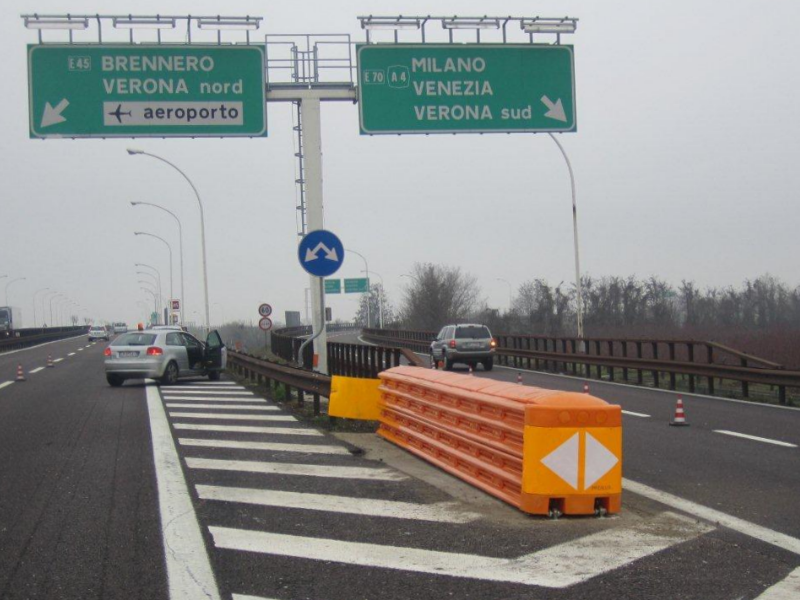 Redirective Parallel Crash Cushion System installed on Italian motorway